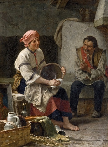 J. Zuber